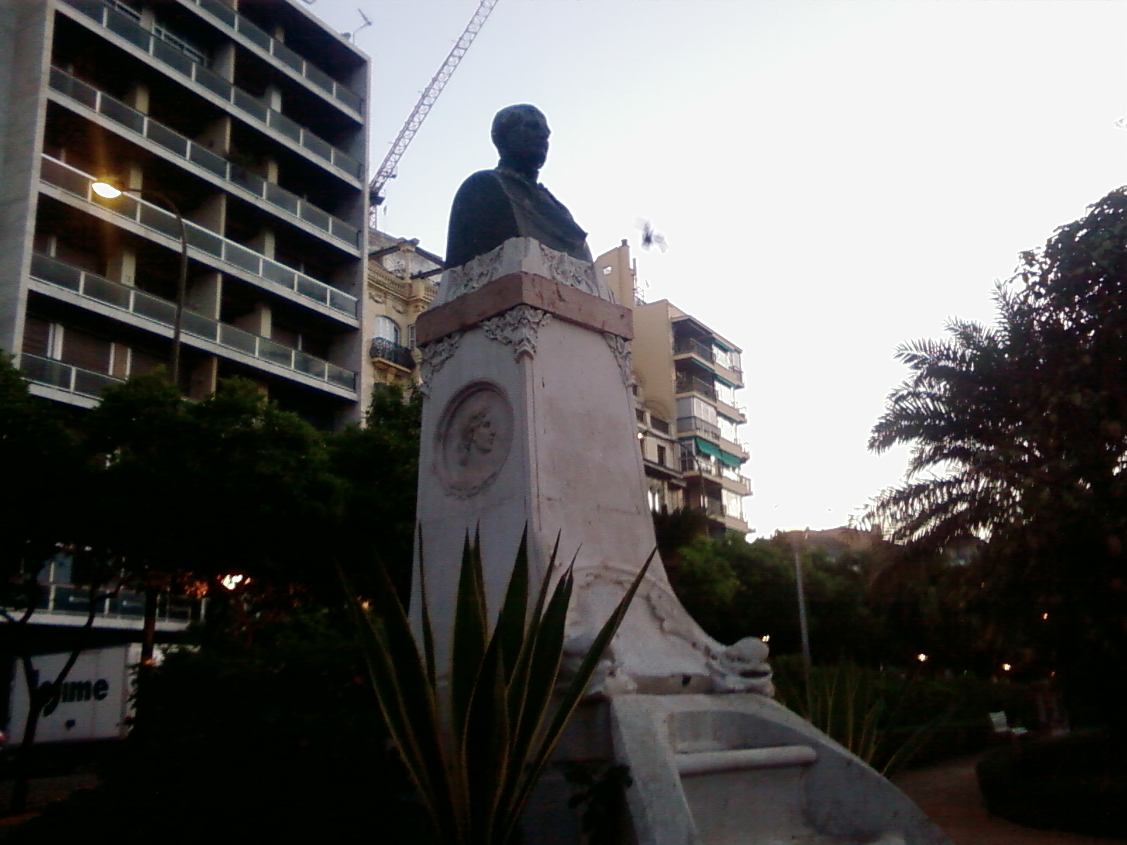 Sculpture to the Marquis of Guadiaro in Málaga, Spain